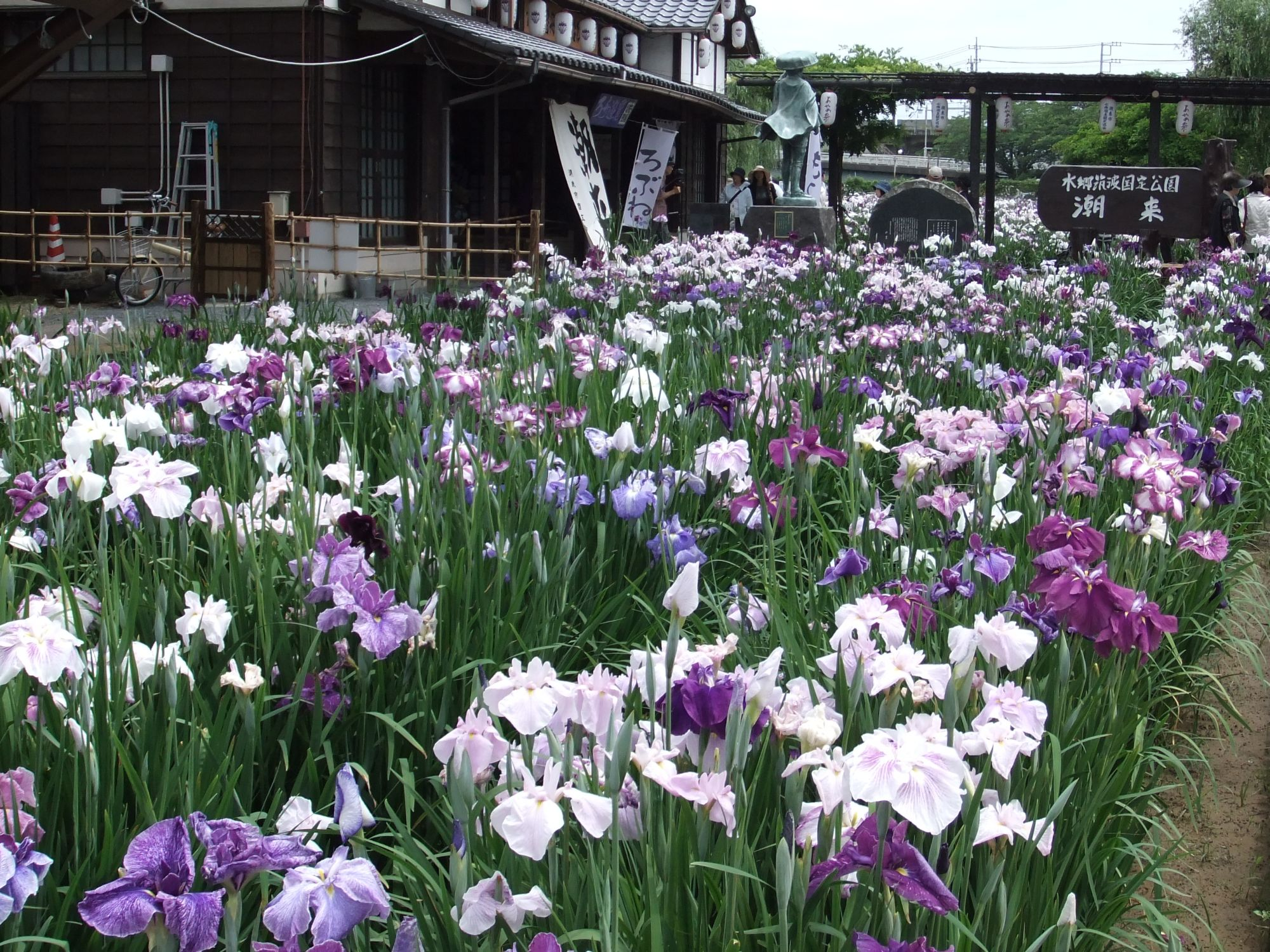 Suigō Itako Ayame-en (Maekawa Iris Garden) in Itako-shi, Ibaraki